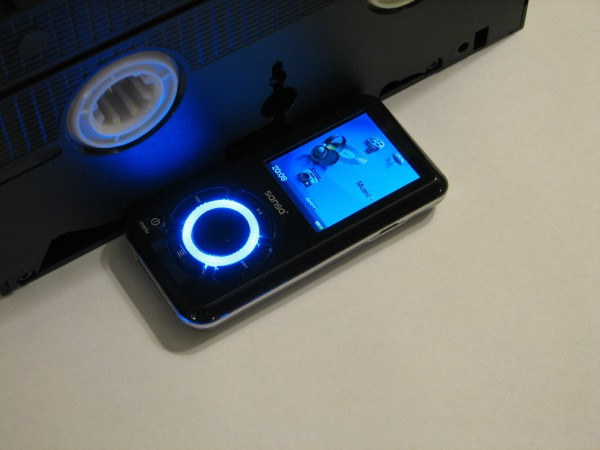 A picture I took of the Sansa e200 next to a VHS found on